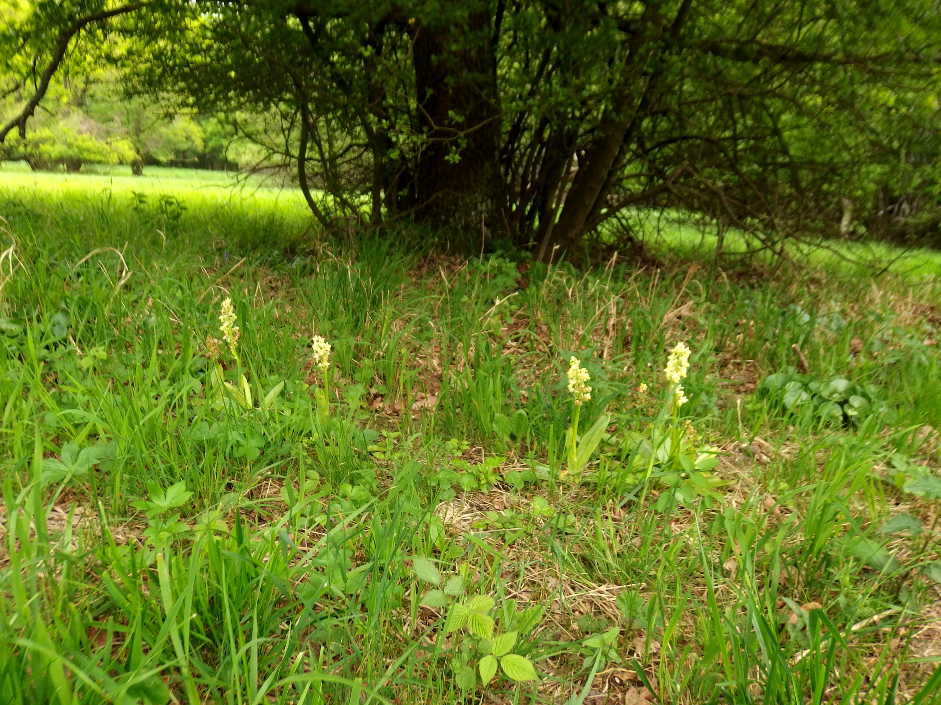 Horní louky, nature reserve in Uherské Hradiště District, Czech Republic.